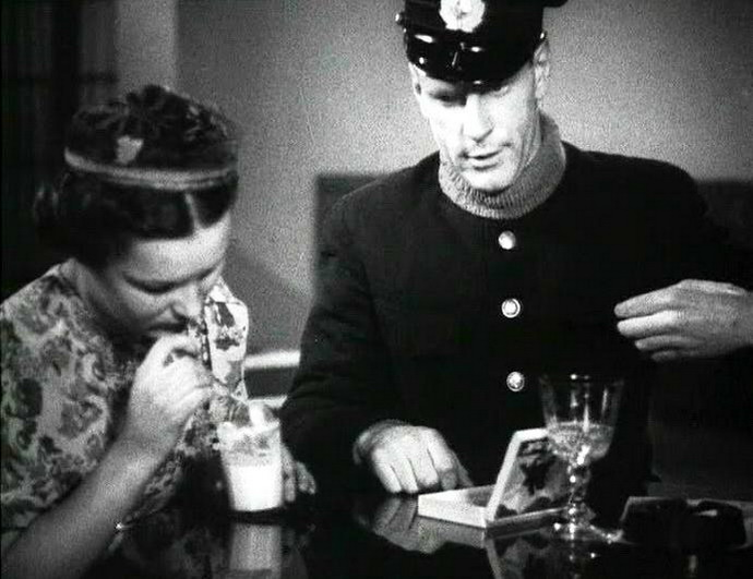 Кадр из фильма Мужество